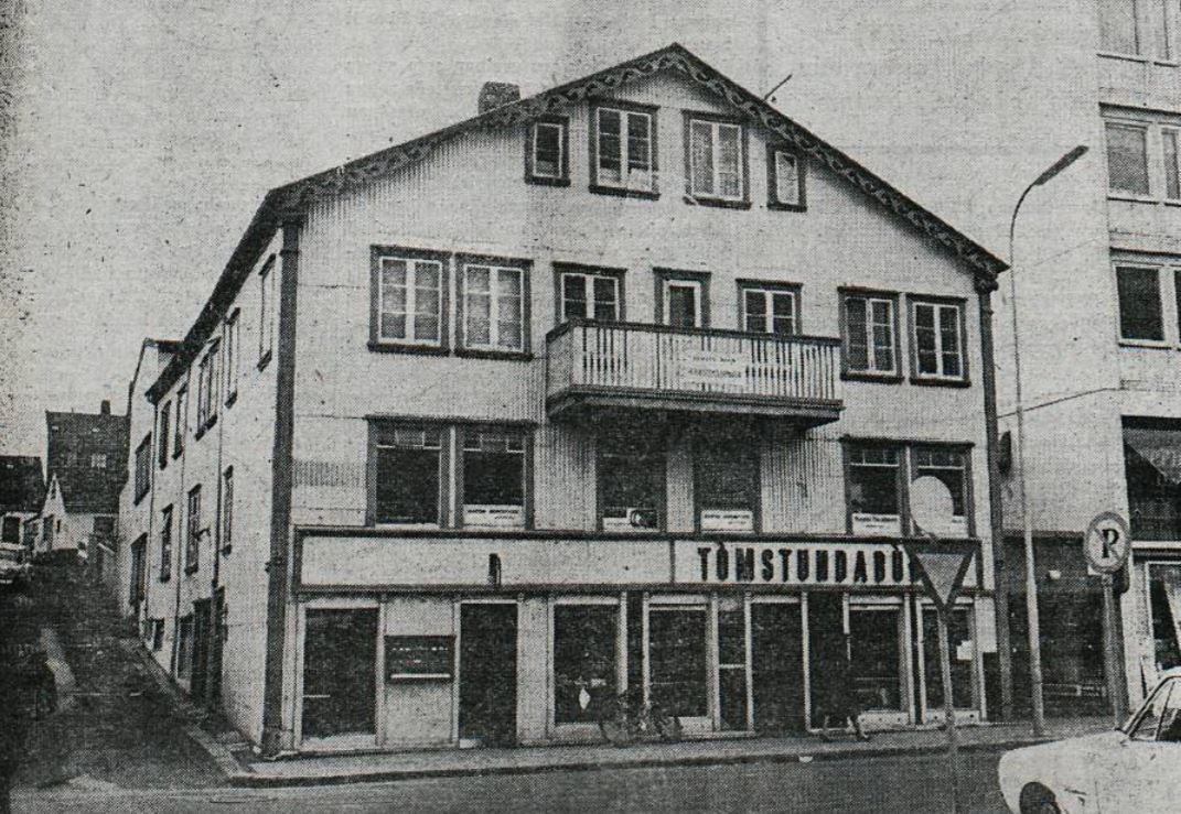 House Fjalarkötturinn in Aðalstræti 8 in Reykjavik, Iceland. The house has been demolished. It was a theather and a shop.